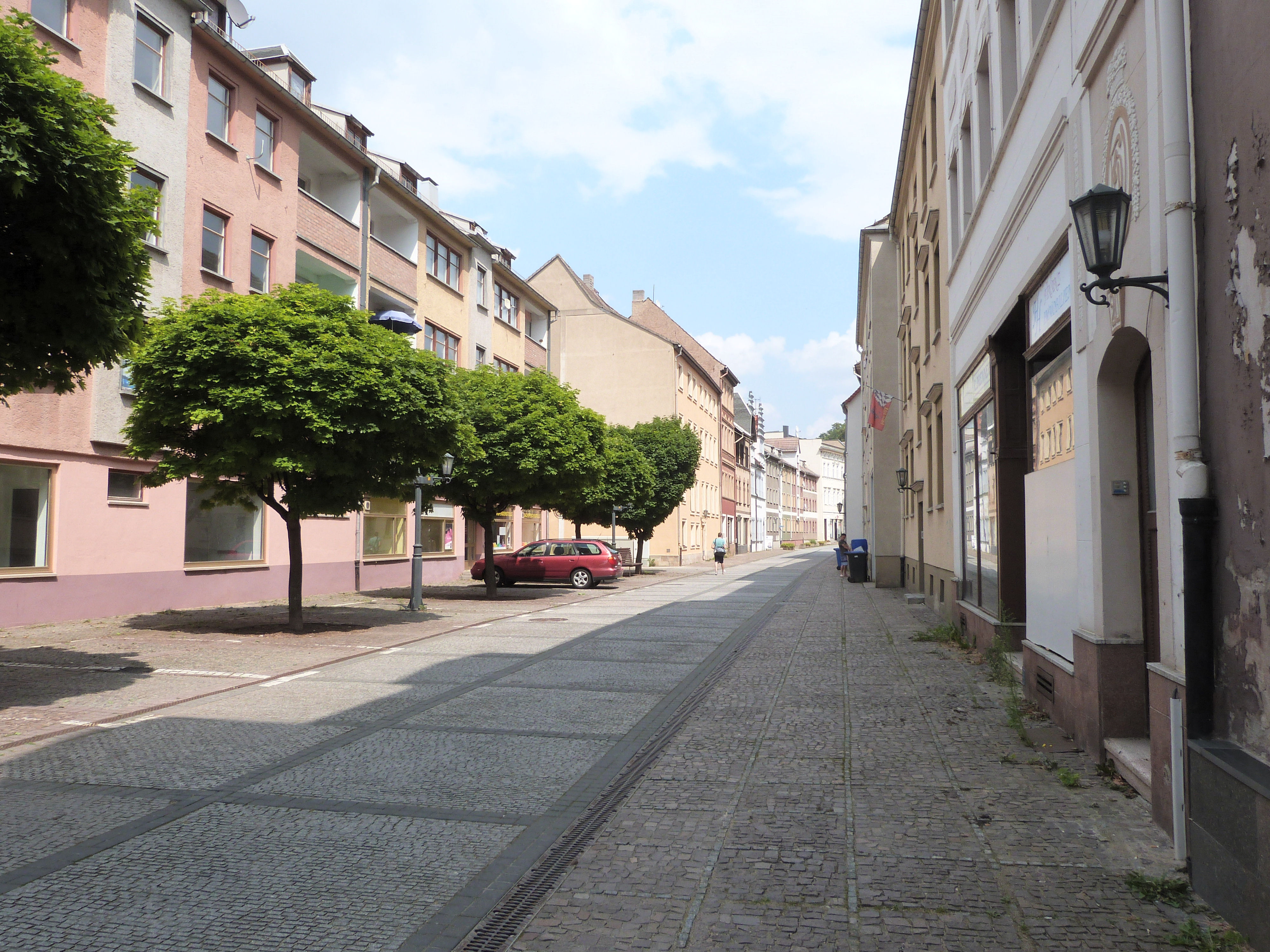 Street Nikolaistrasse, Weissenfels, Saxony-Anhalt